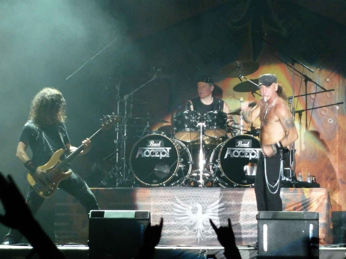 The German heavy metal band Accept performing at Kavarna Rock Fest 2013, Bulgaria.